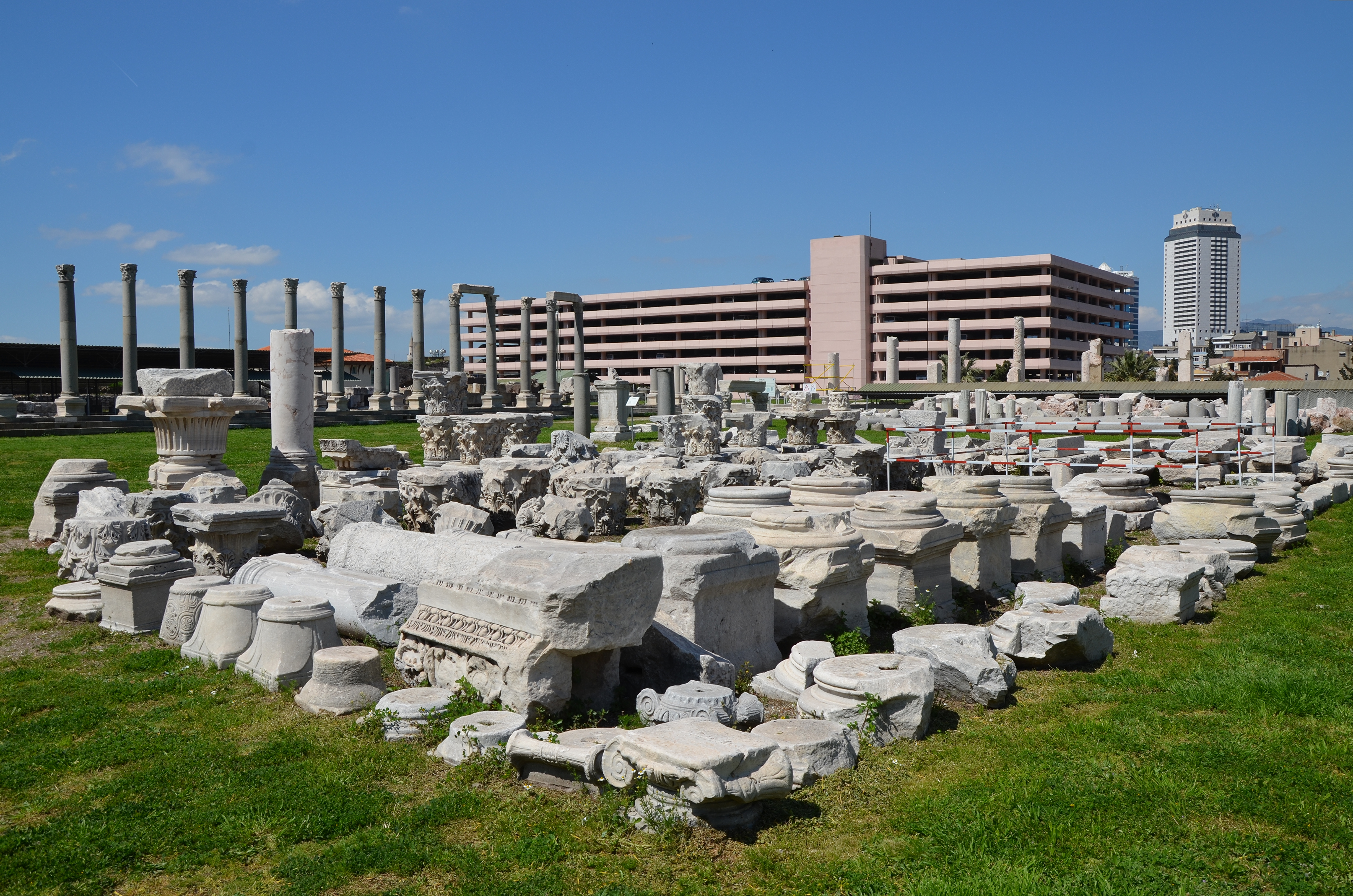 Agora of Smyrna, built during the Hellenistic era at the base of Pagos Hill and totally rebuilt under Marcus Aurelius after the destructive 178 AD earthquake, Izmir, Turkey